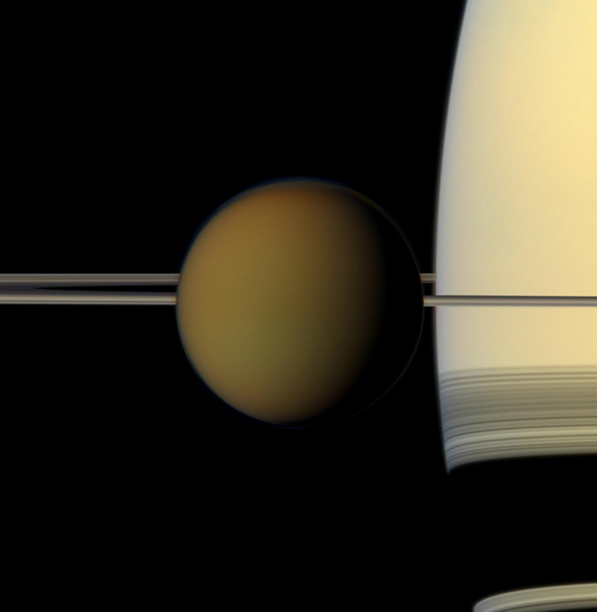 Original Caption Released with Image: The colorful globe of Saturn's largest moon, Titan, passes in front of the planet and its rings in this true color snapshot from NASA's Cassini spacecraft. The north polar hood can be seen on Titan (3,200 miles or 5,150 kilometers across) and appears as a detached layer at the top of the moon here. See PIA08137 and PIA09739 to learn more about Titan's atmosphere and the north polar hood. This view looks toward the northern, sunlit side of the rings from just above the ring plane. Images taken using red, green and blue spectral filters were combined to create this natural color view. The images were obtained with the Cassini spacecraft narrow-angle camera on May 21, 2011, at a distance of approximately 1.4 million miles (2.3 million kilometers) from Titan. Image scale is 9 miles (14 kilometers) per pixel on Titan.